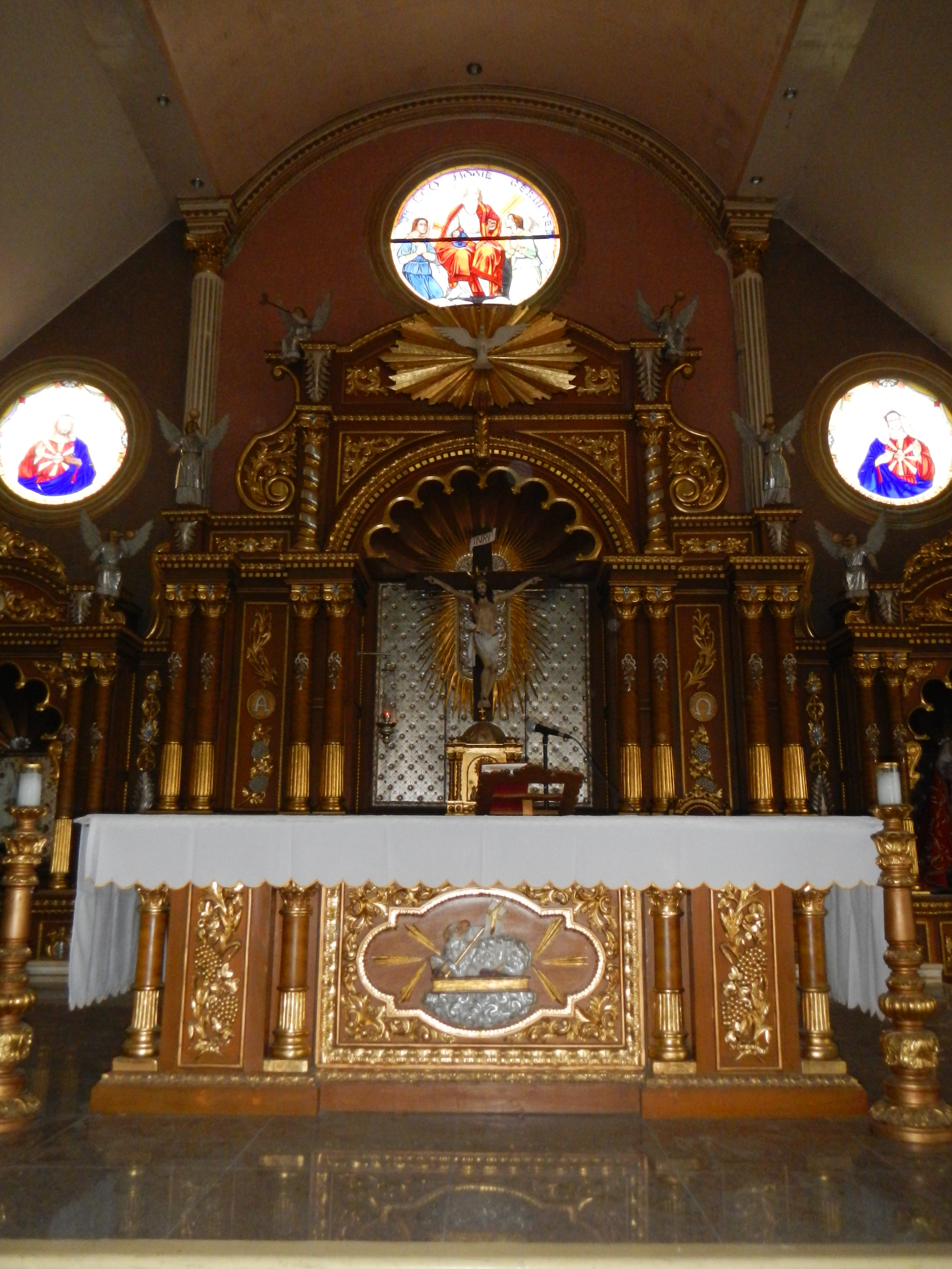 (F-1804) Saint Raymond Nonatus Parish Church of Moncada - Moncada, Tarlac[1] 2308 Tarlac, Philippines - Titular: St. Raymund Nonatus, August 31 Parish Priest: Father Ador Castroverde [2] Raymond Nonnatus, O. de M. (Catalan: Sant Ramon Nonat